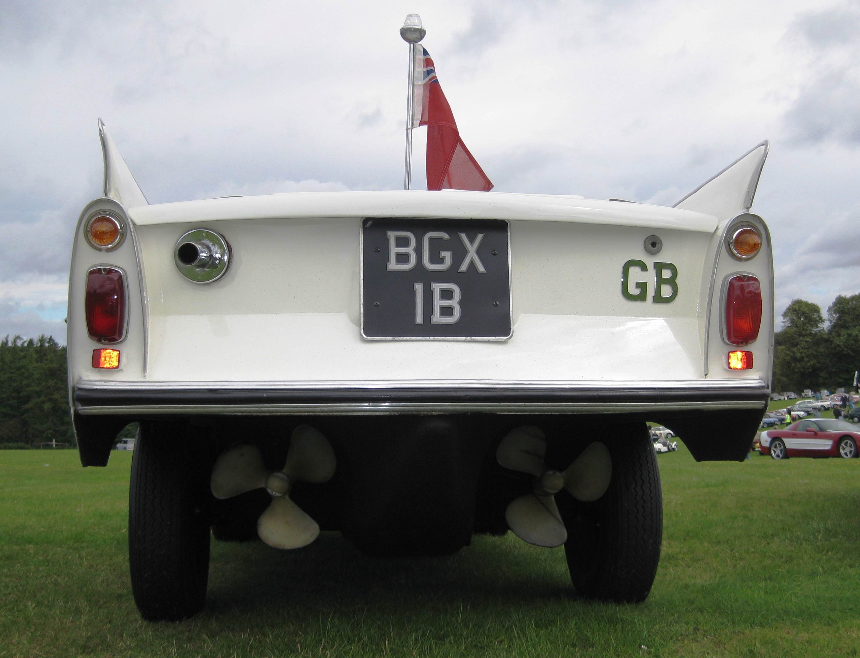 The underside of the Amphicar from beneath, showing (if darkly) the propellers under the car and the exhaust pipe emerging from halfway up the body work.